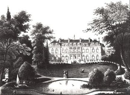 Elysee Palace's garden under the Second Republic